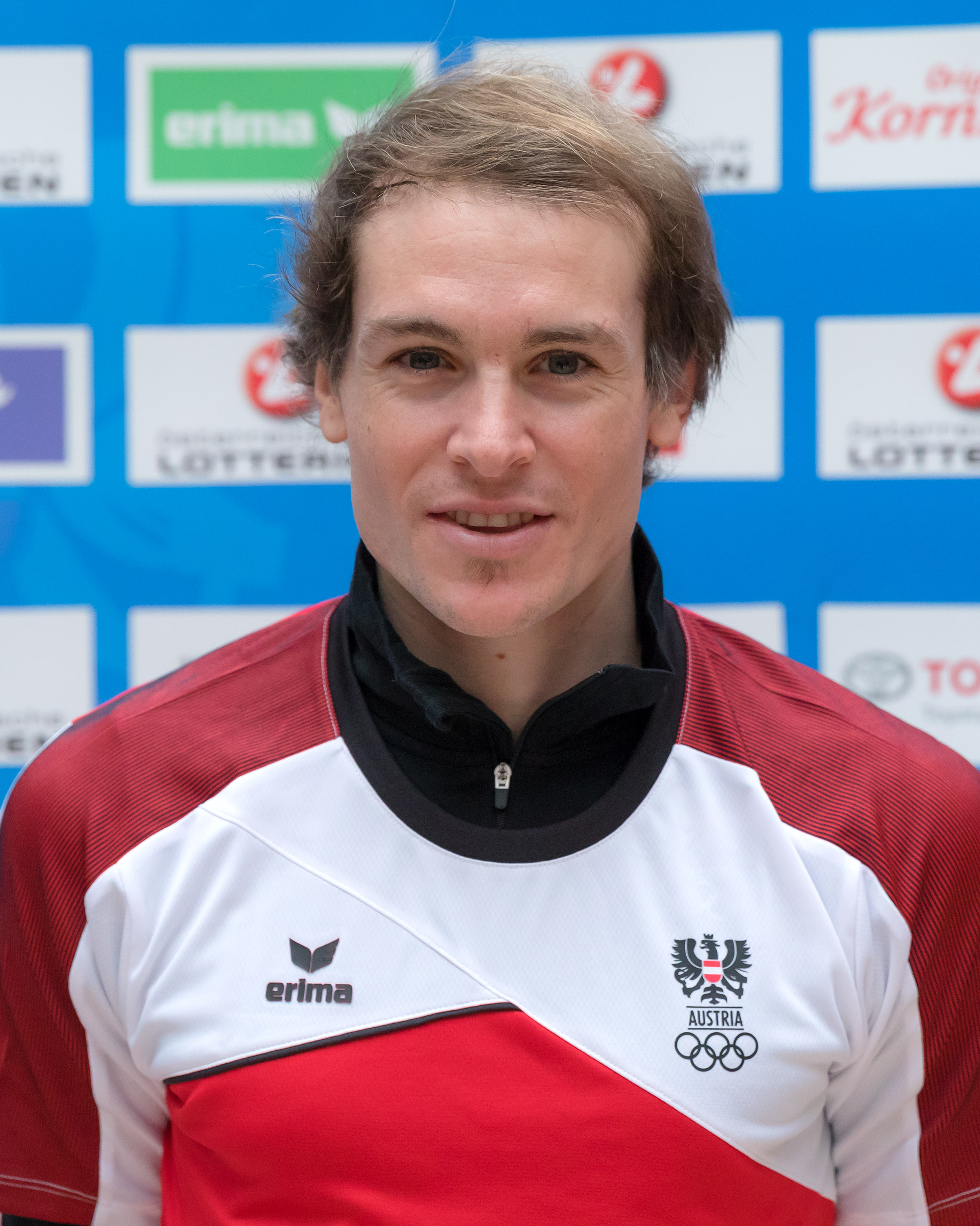 Bernhard Tritscher at the outfitting of the Austrian team for the 2018 Winter Olympics (Hotel Marriott in Vienna, Austria.